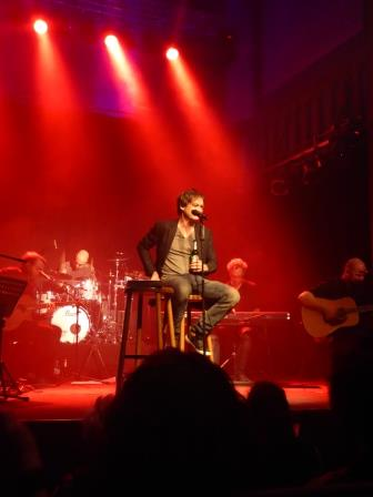 Thomas Godoj in Köln 2015